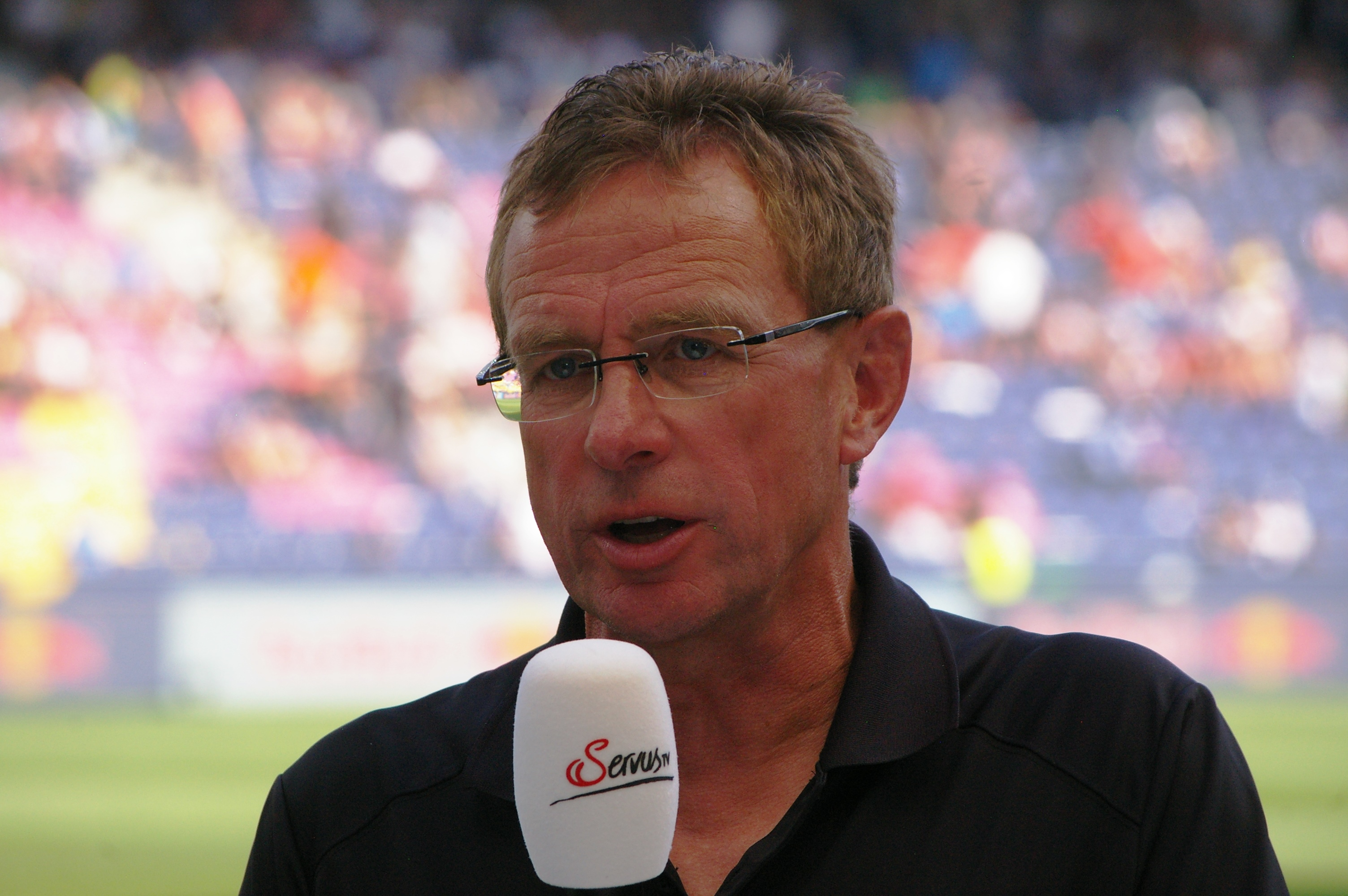 tournament with SV Werder Bremen, FC Southampton, Red Bull Salzburg and Valencia CF preseason friendly matches